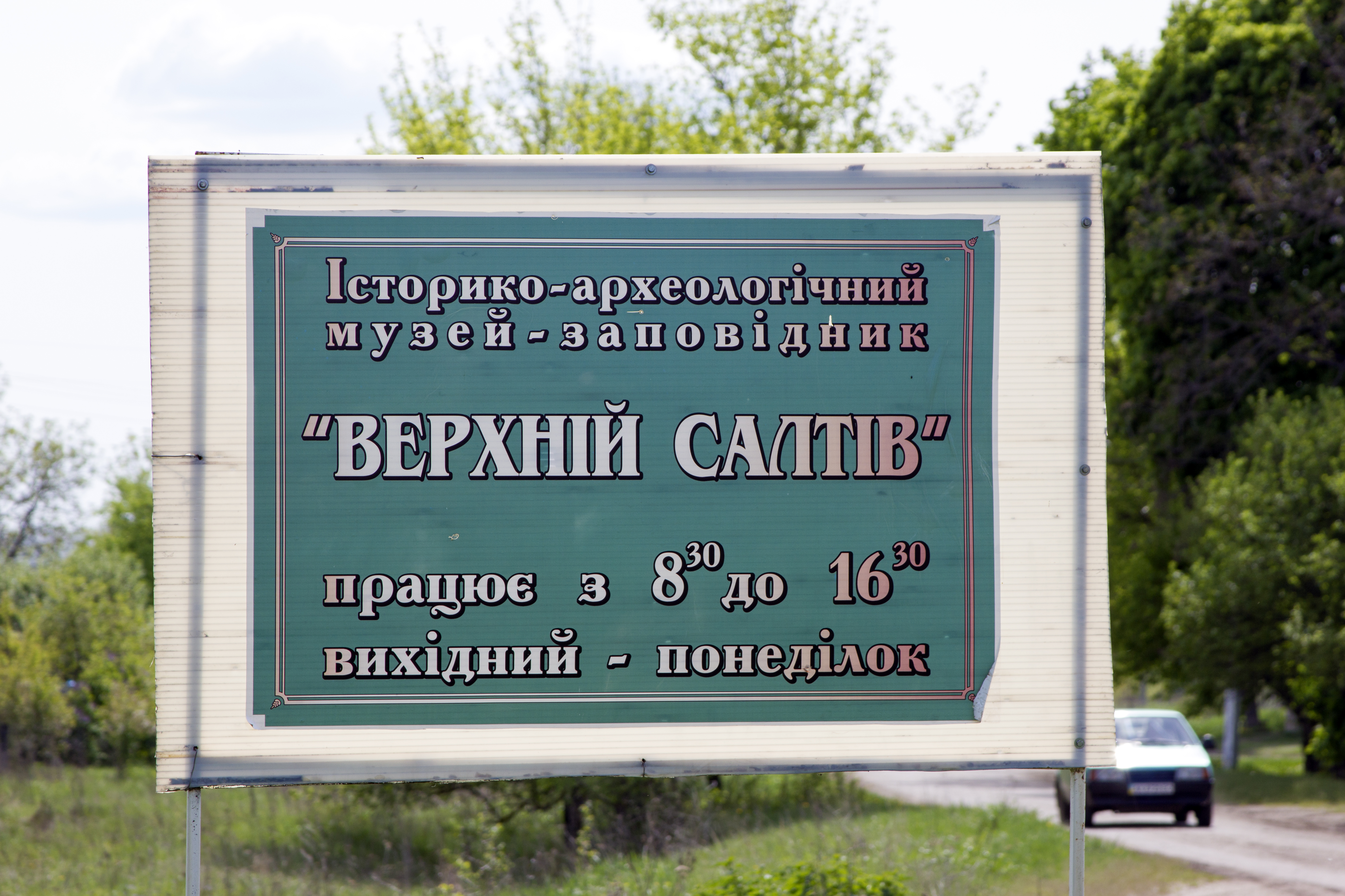 Historical and Archaeological Museum (2)